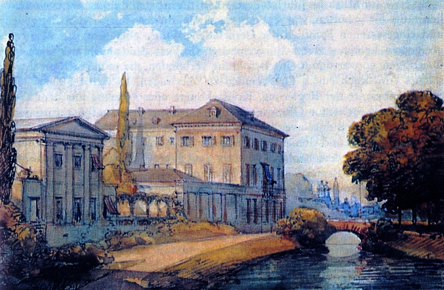 t